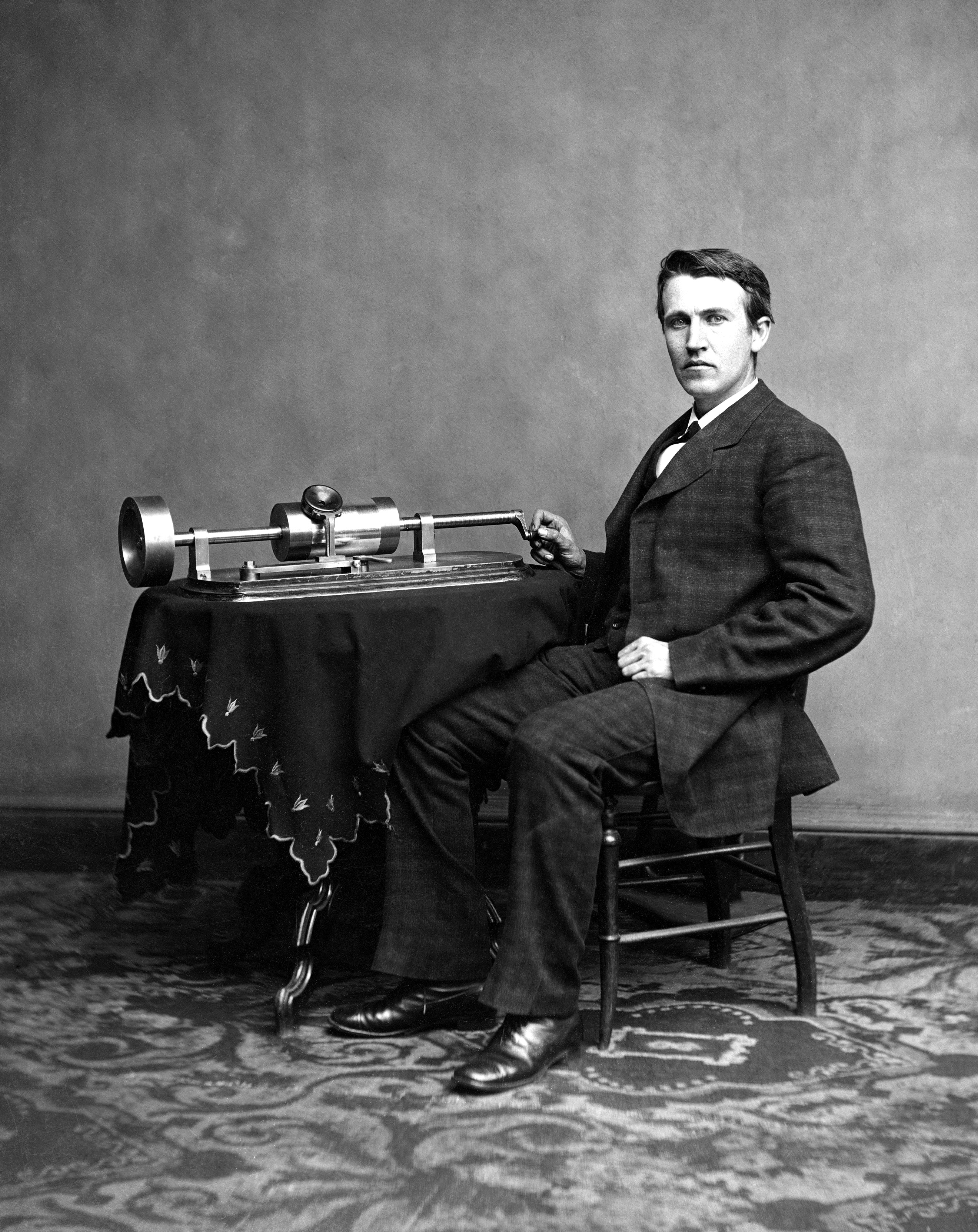 Thomas Edison and his early phonograph. Cropped from Library of Congress copy. Edited Version. Dust removed by Arad. Lightness fixed by Skies